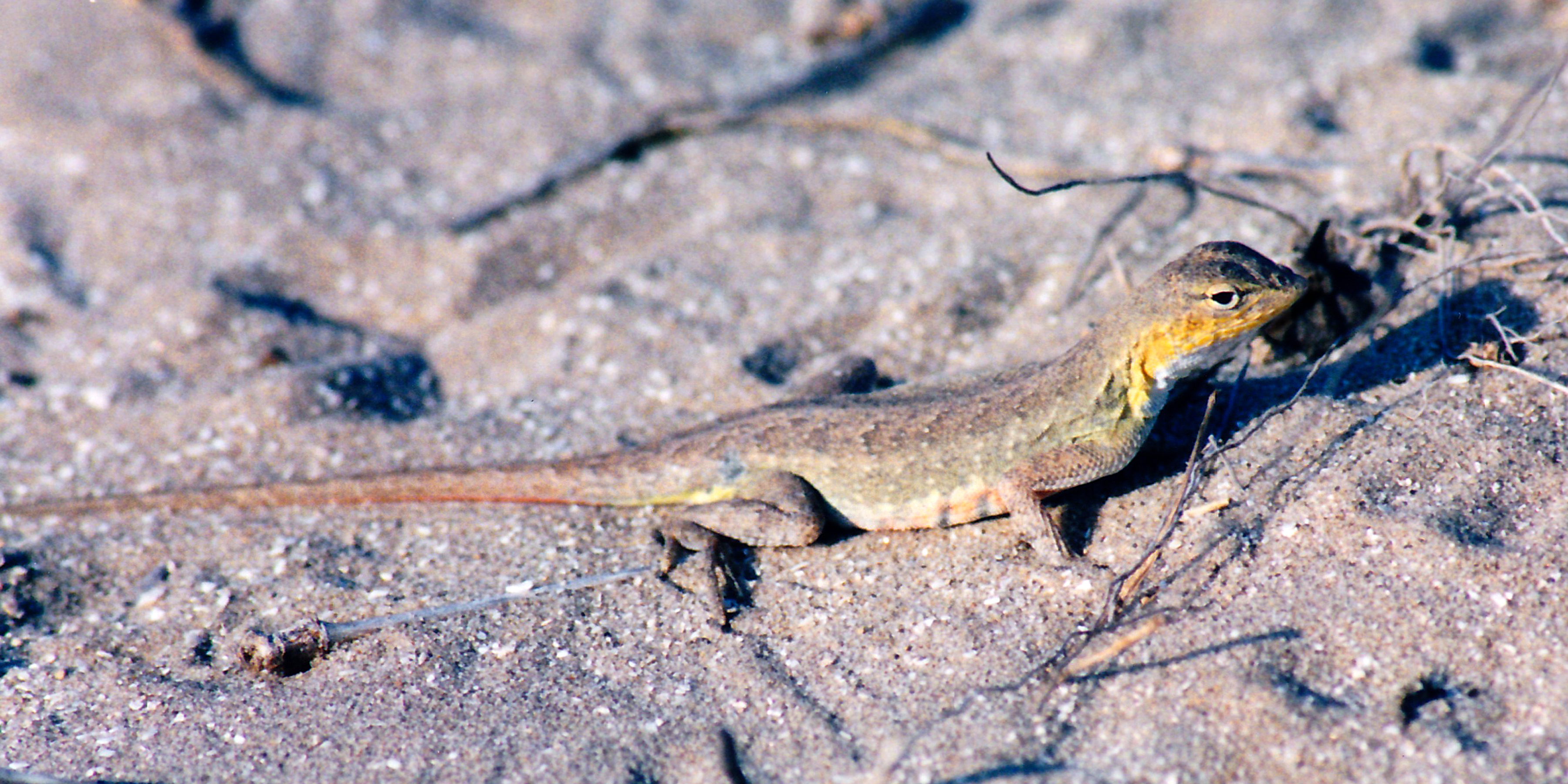 Keeled earless lizard (Holbrookia propinqua) a female photographed in situ in the sand dunes on the beach, municipality of Soto La Marina, Tamaulipas, Mexico. Photographed on 20 May 2002 by William L. Farr. This image was originally photographed with film and later scanned from a print.